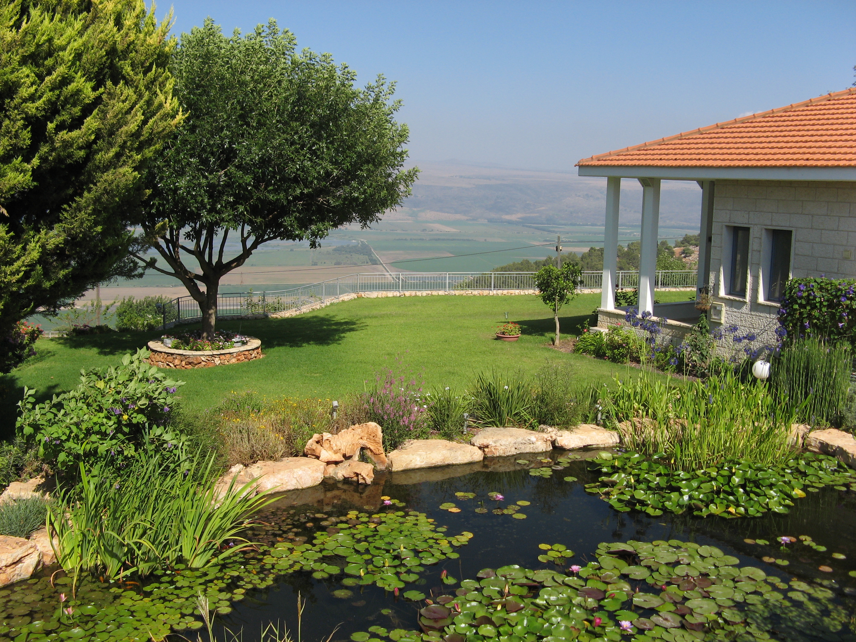 A picture of a nice house in Ramot Naftali with the Hula valley in the background.